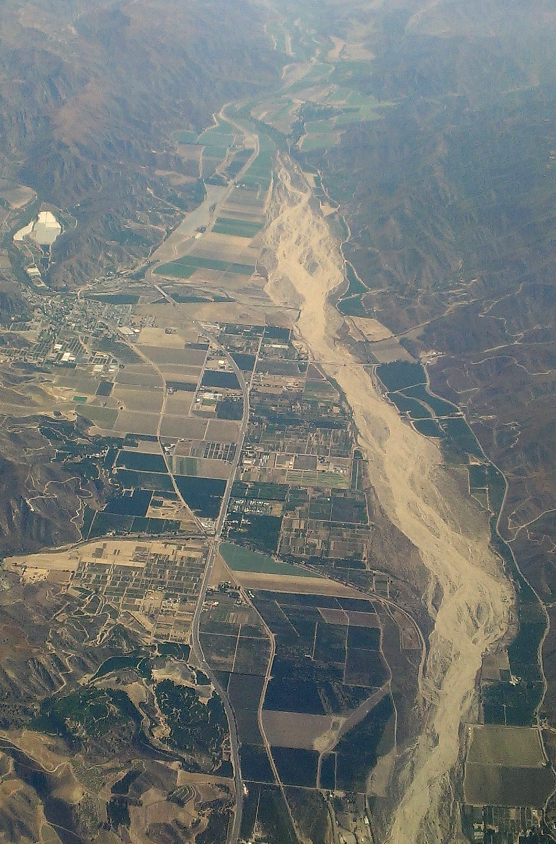 Aerial view of the Santa Clara River, with Piru at center left — in Ventura County, California.